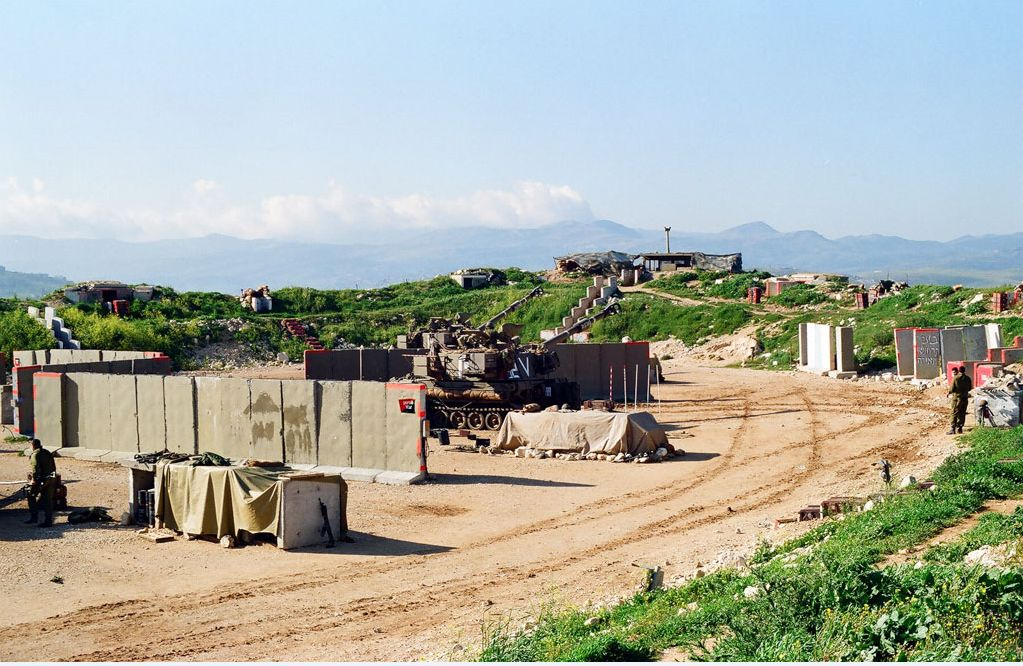 מבט לתוך מוצב שרייפה ברצועת הביטחון בלבנון ועל התומ"תים - צולם על ידי שחר מהסוללות המזרחיות